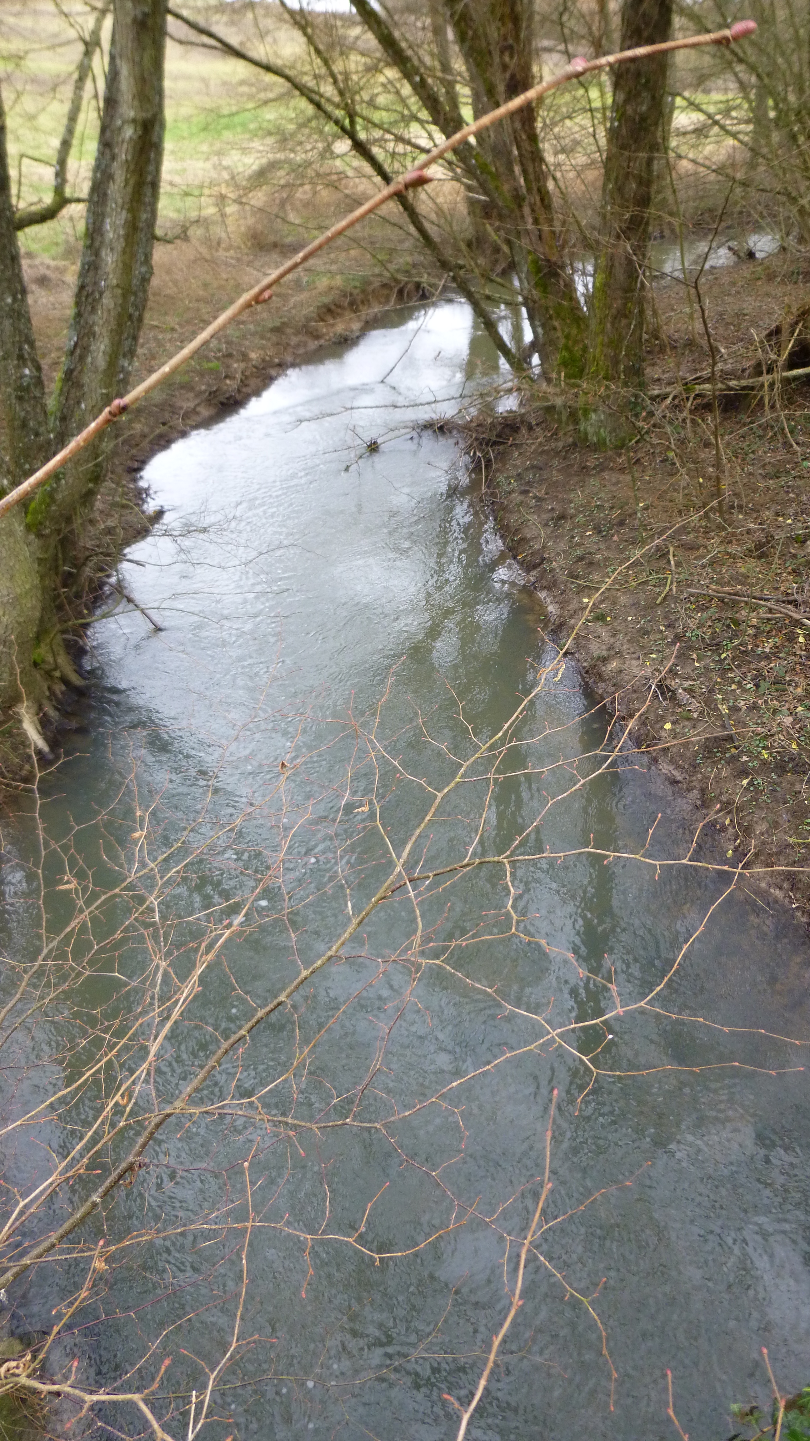 Yonne, Burgundy, France. The Péruseau at the Bonnins hamlet. This hamlet is split over two "communes" : Charny and Perreux, and the limit passes right along the bridge on the upstream side. Here, looking upstream towards Perreux. This section of the Péruseau is on Perreux commune. 50 meters further up, the Péruseau receives its tributary the ru des Josselins on its right side (thus here on the left).